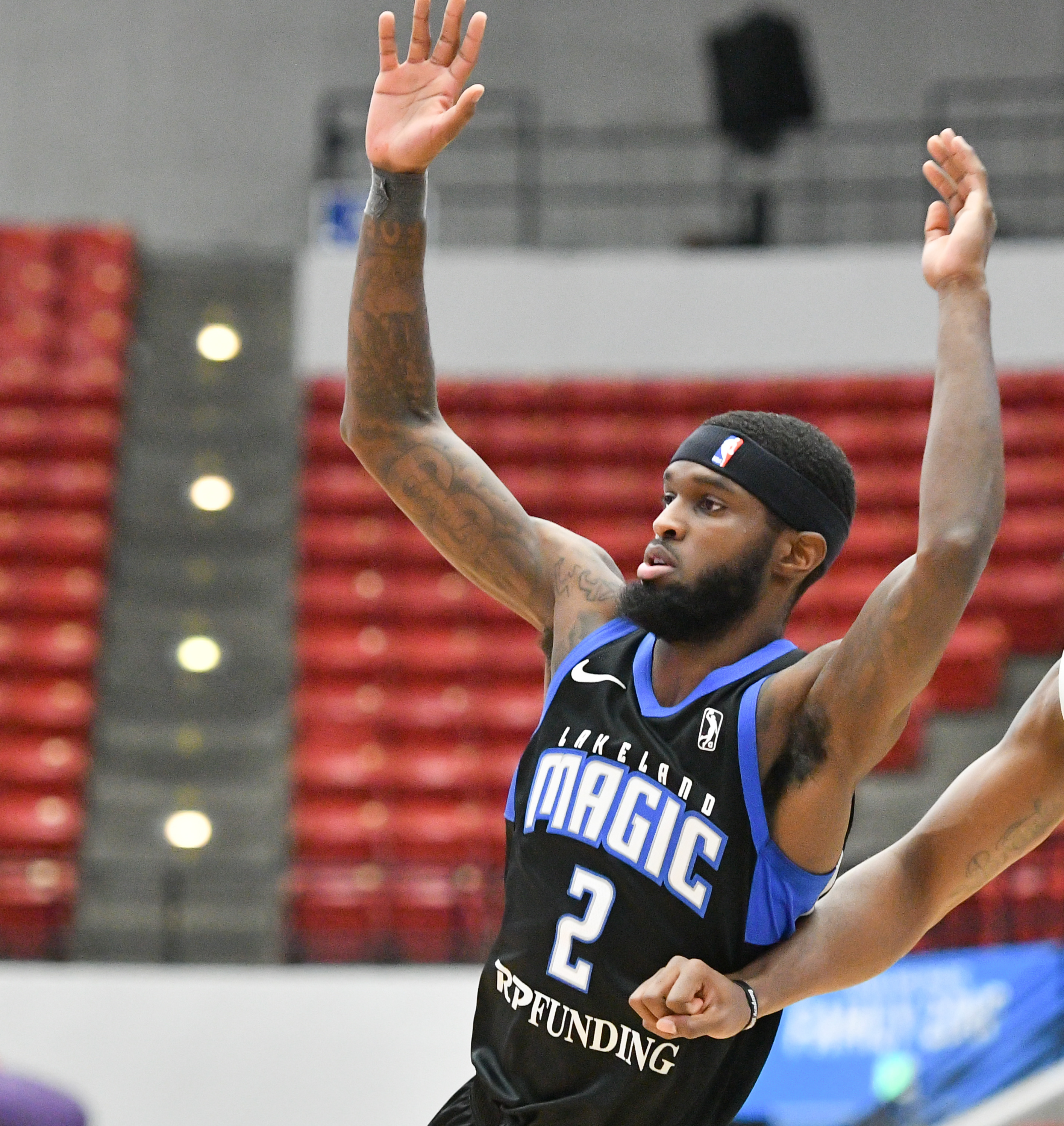 BJ Johnson, Haywood Highsmith. Lakeland Magic vs Delaware Blue Coats. RP Funding Center. Lakeland, Fla. Dec. 1, 2019. (Photo by Tom Hagerty.)